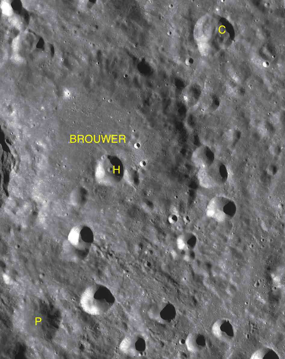 Part of the chart LAC-122 used for the presentation